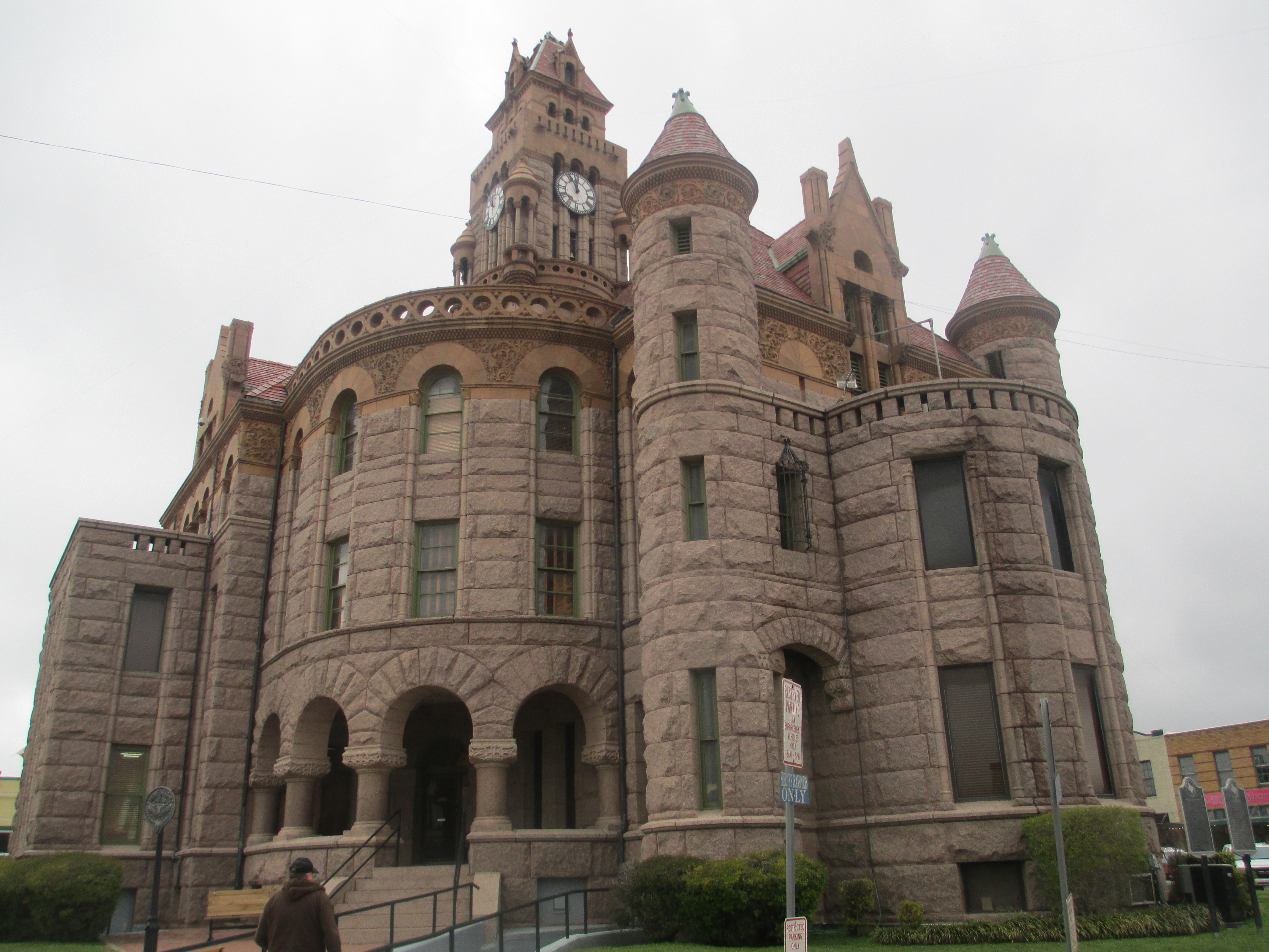 I took photo of Wise County, TX, Courthouse in Decatur with Canon camera, April 4, 2013. Billy Hathorn (talk) 00:41, 12 April 2013 (UTC)